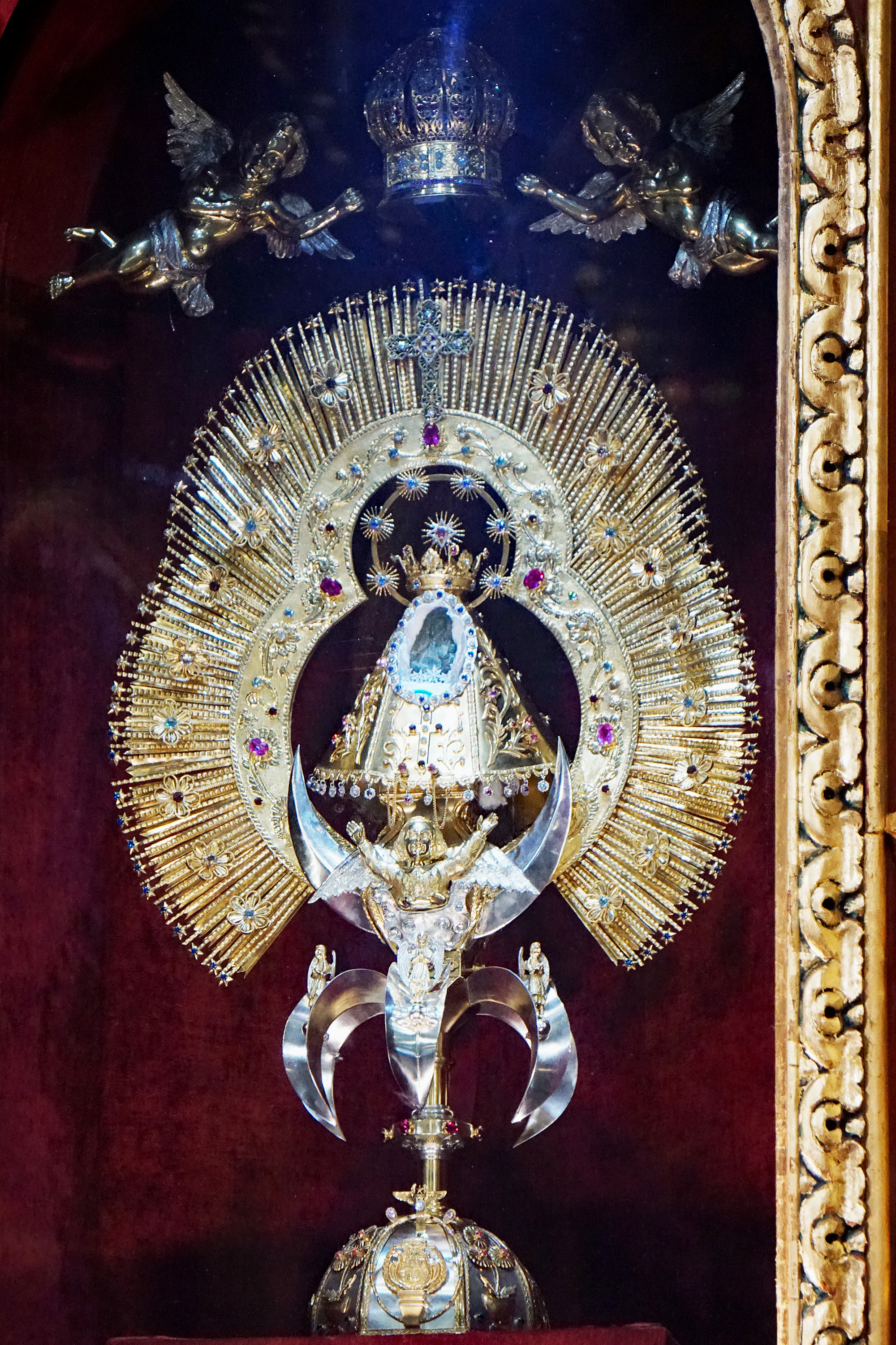 Our Lady of the Angels, Costa Rica's Patron Virgen in display at Our Lady of the Angels Basilica, Cartago, Costa Rica.